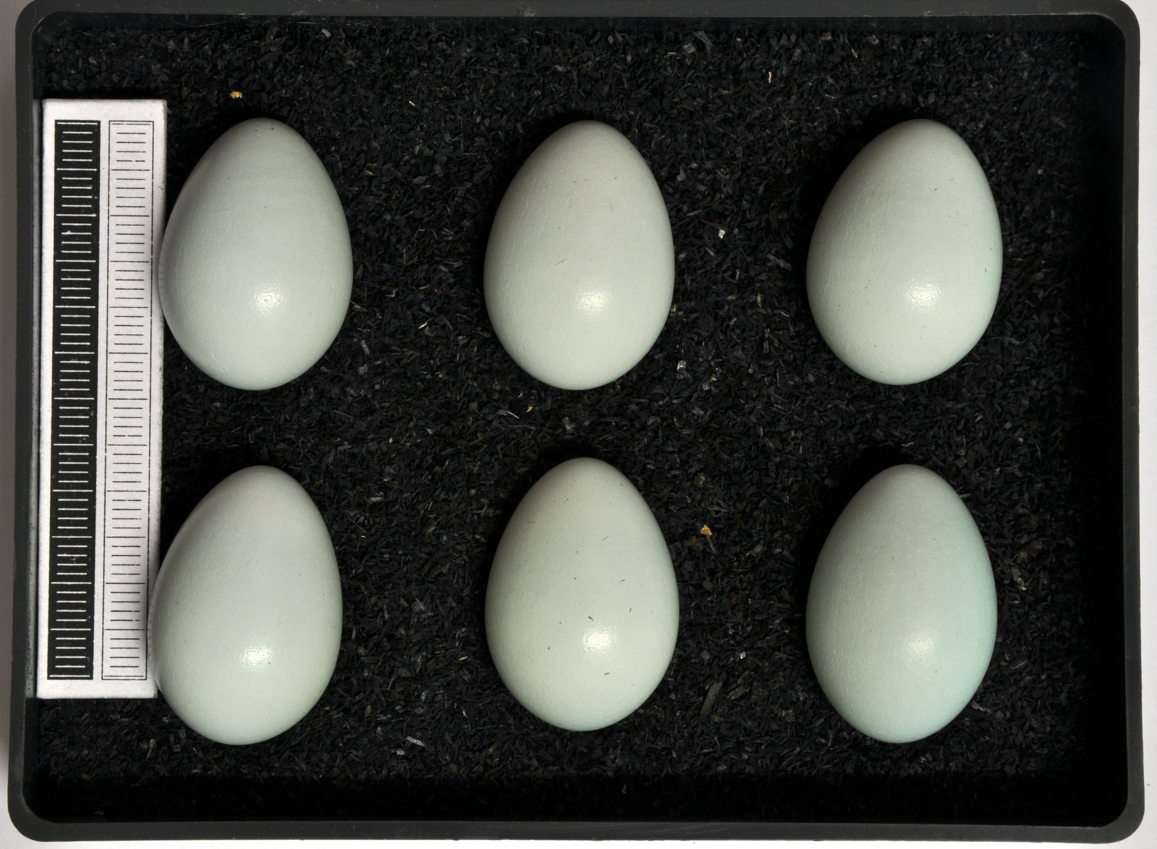 Common starling Sturnus vulgaris, egg, Coll. Museum Wiesbaden, Origin: Gräfelfing, Bavaria, 12.04.1972, leg. W. Abelmann